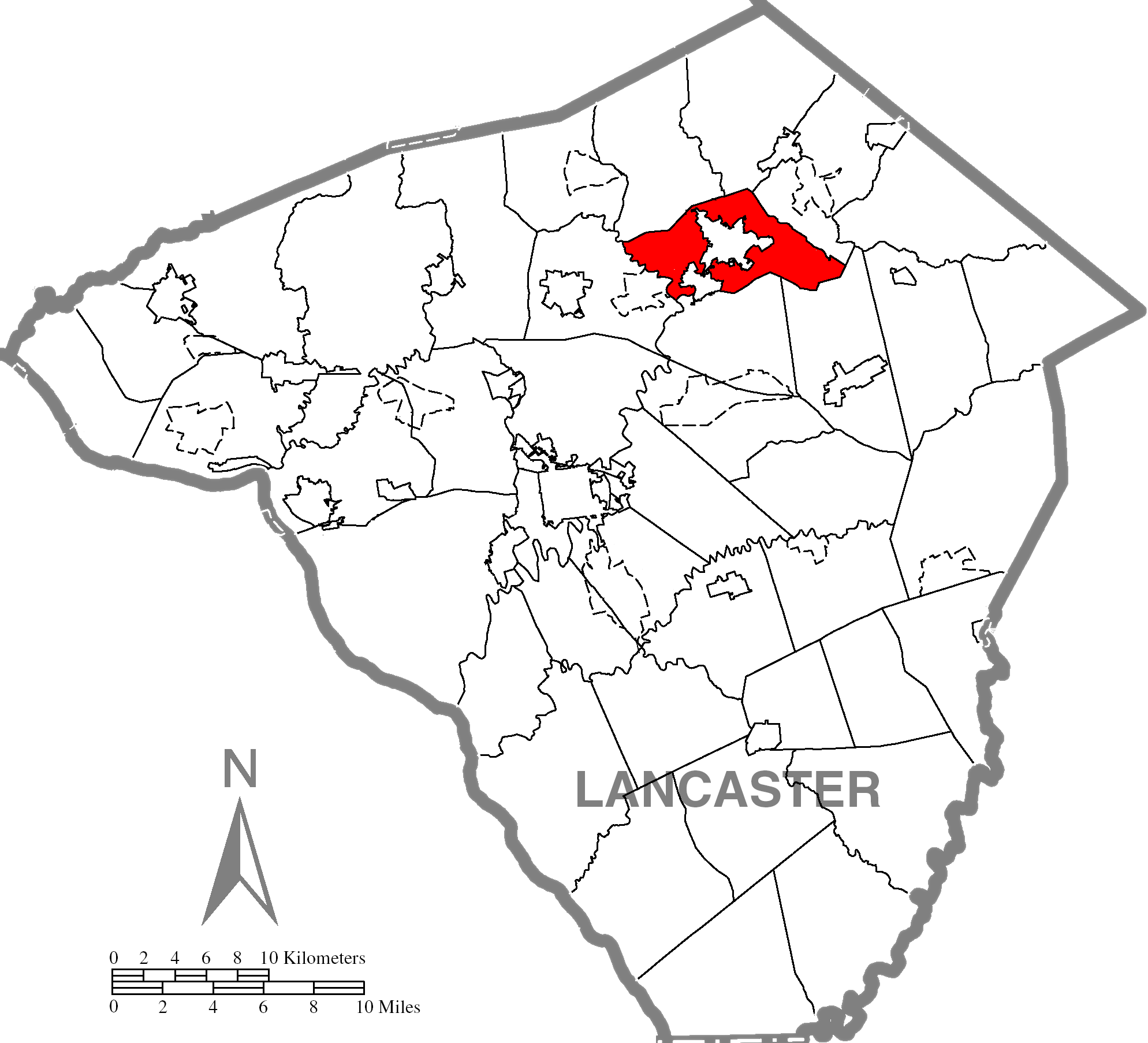 Highlighted Lancaster County map of Ephrata Township.